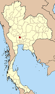 Map of Thailand hightlighting Ang Thong province